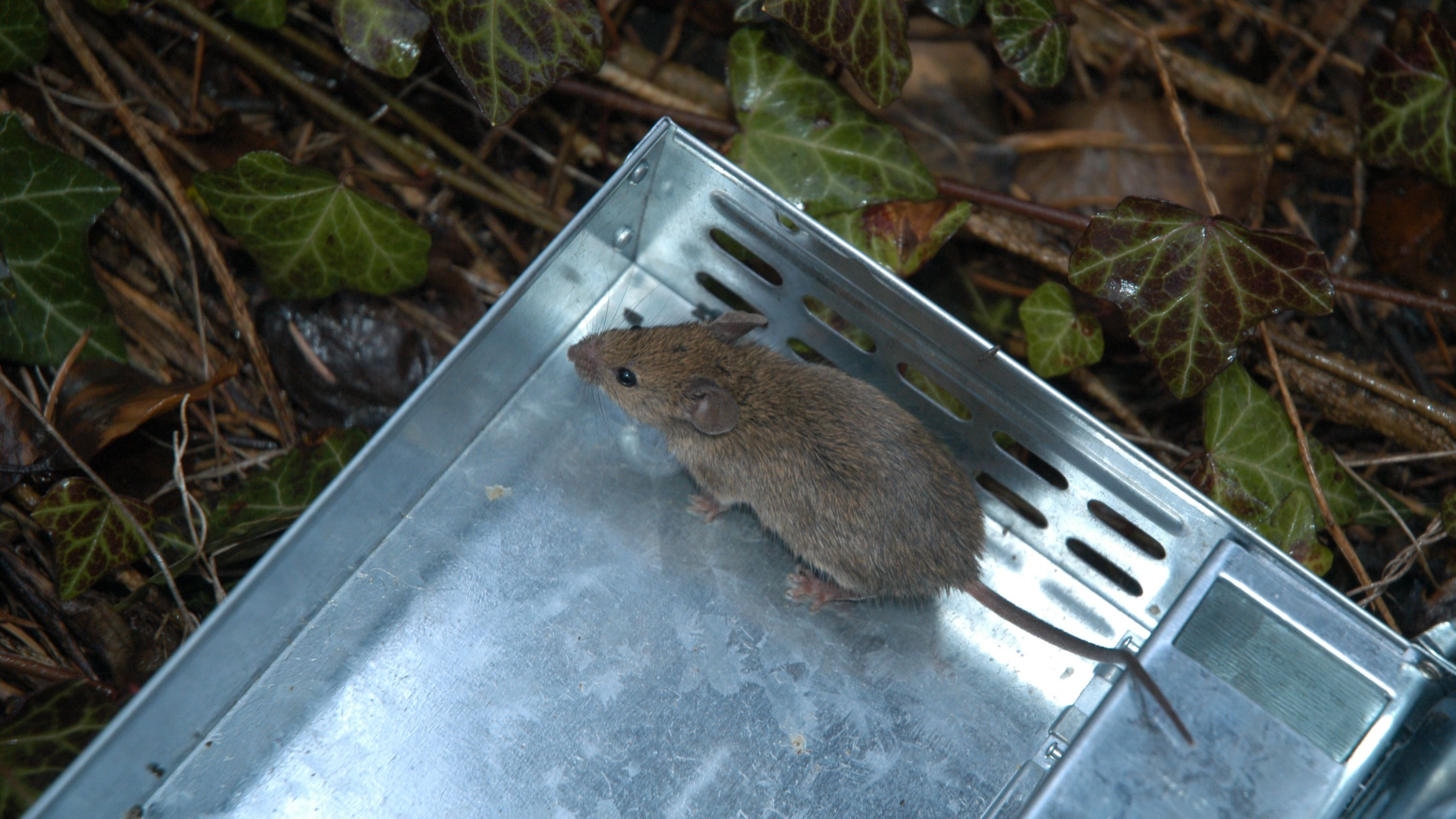 House mouse released from live capture trap far from the house it was captured